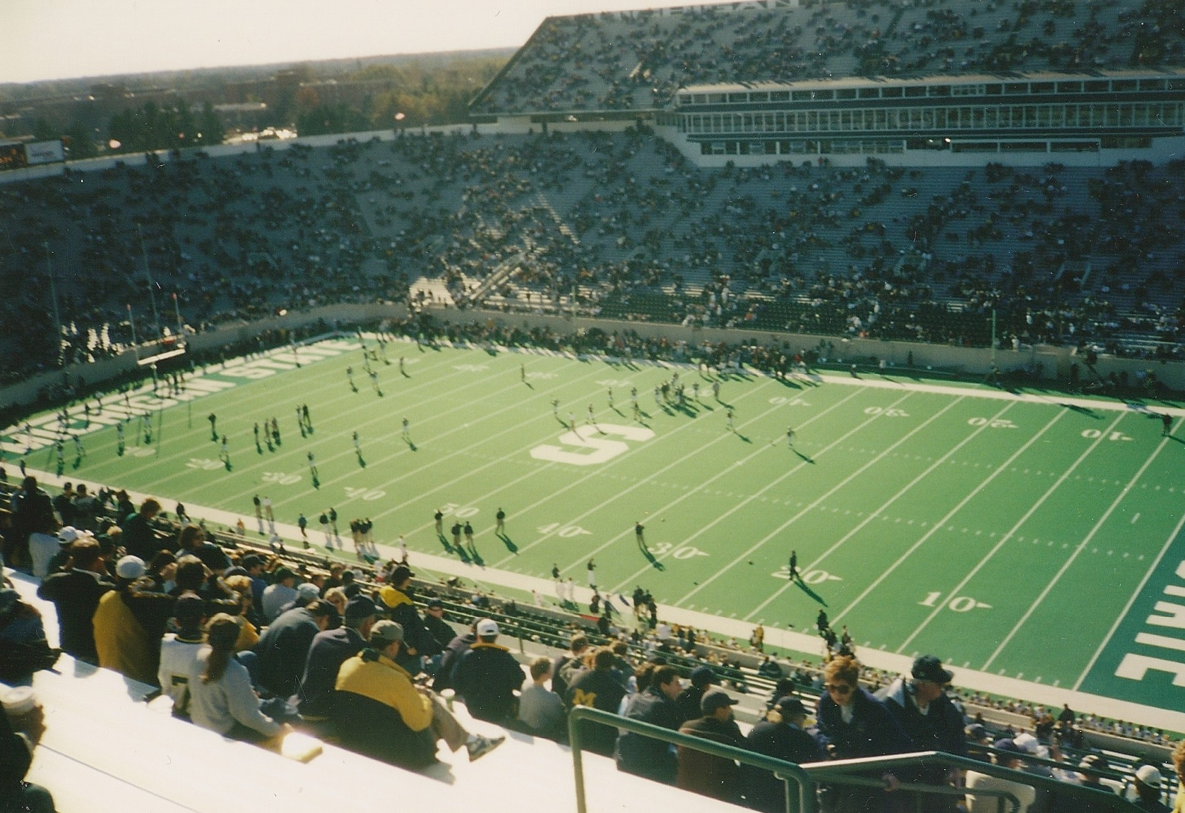 Michigan State warming up before the Michigan Wolverines vs. Michigan State Spartans football game at Spartan Stadium in East Lansing, Michigan (United States).